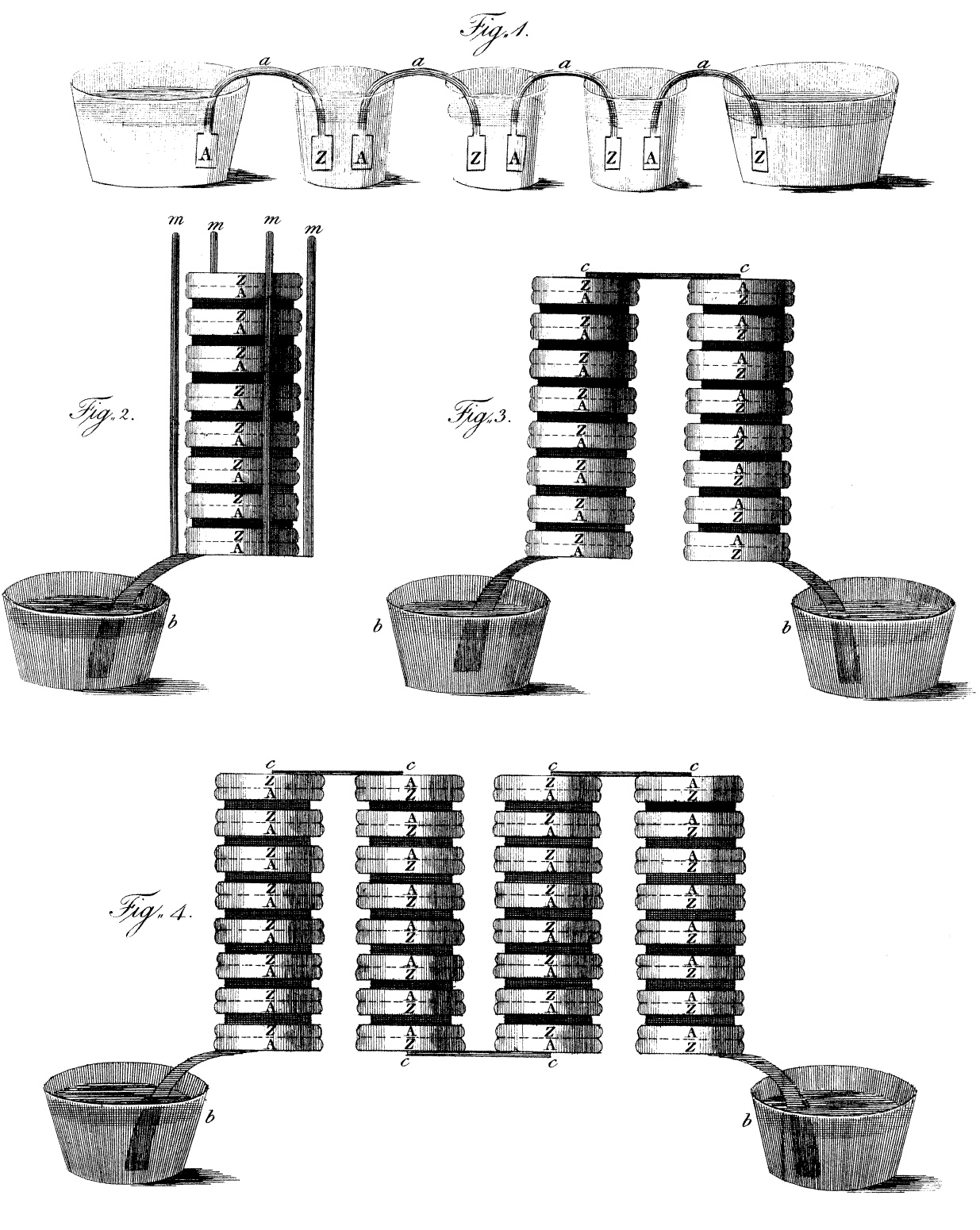 Volta's original illustation of a Crown of Cups and a Voltaic pile batteries. Published in 1800.